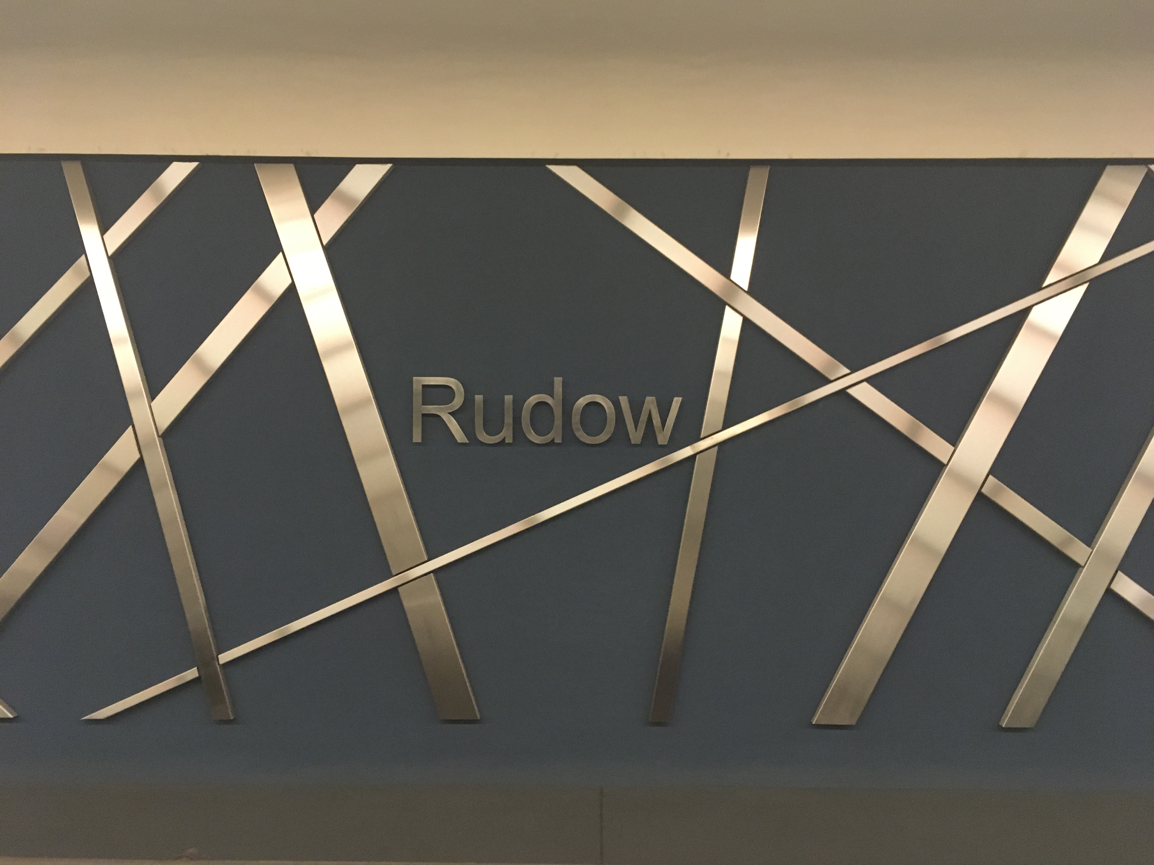 Rudow U-Bahn station after its renovation in 2018; Berlin, Germany